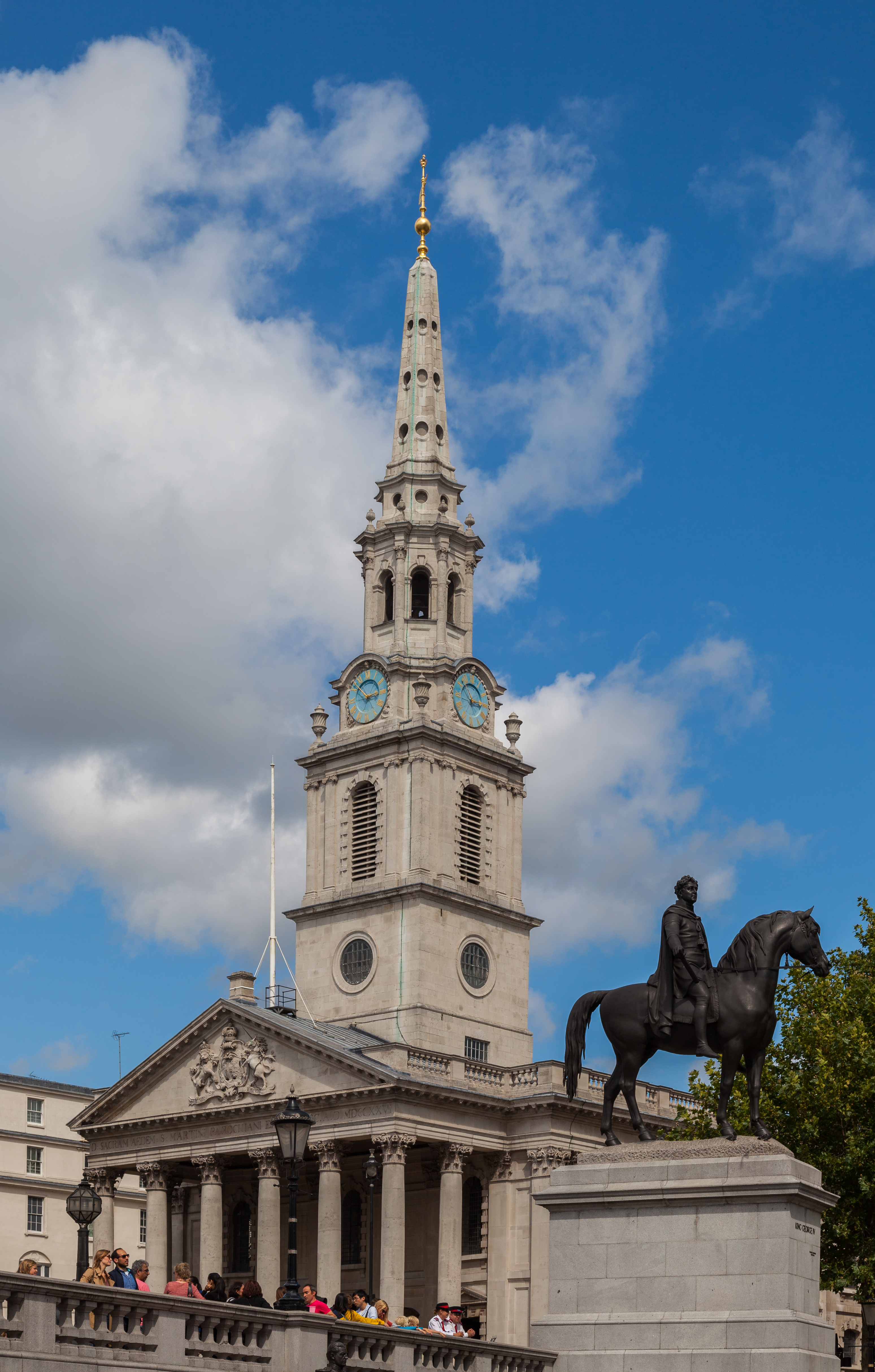 Statue of George IV of the United Kingdom and St Martin-in-the-Fields church, Trafalgar Square, London, England